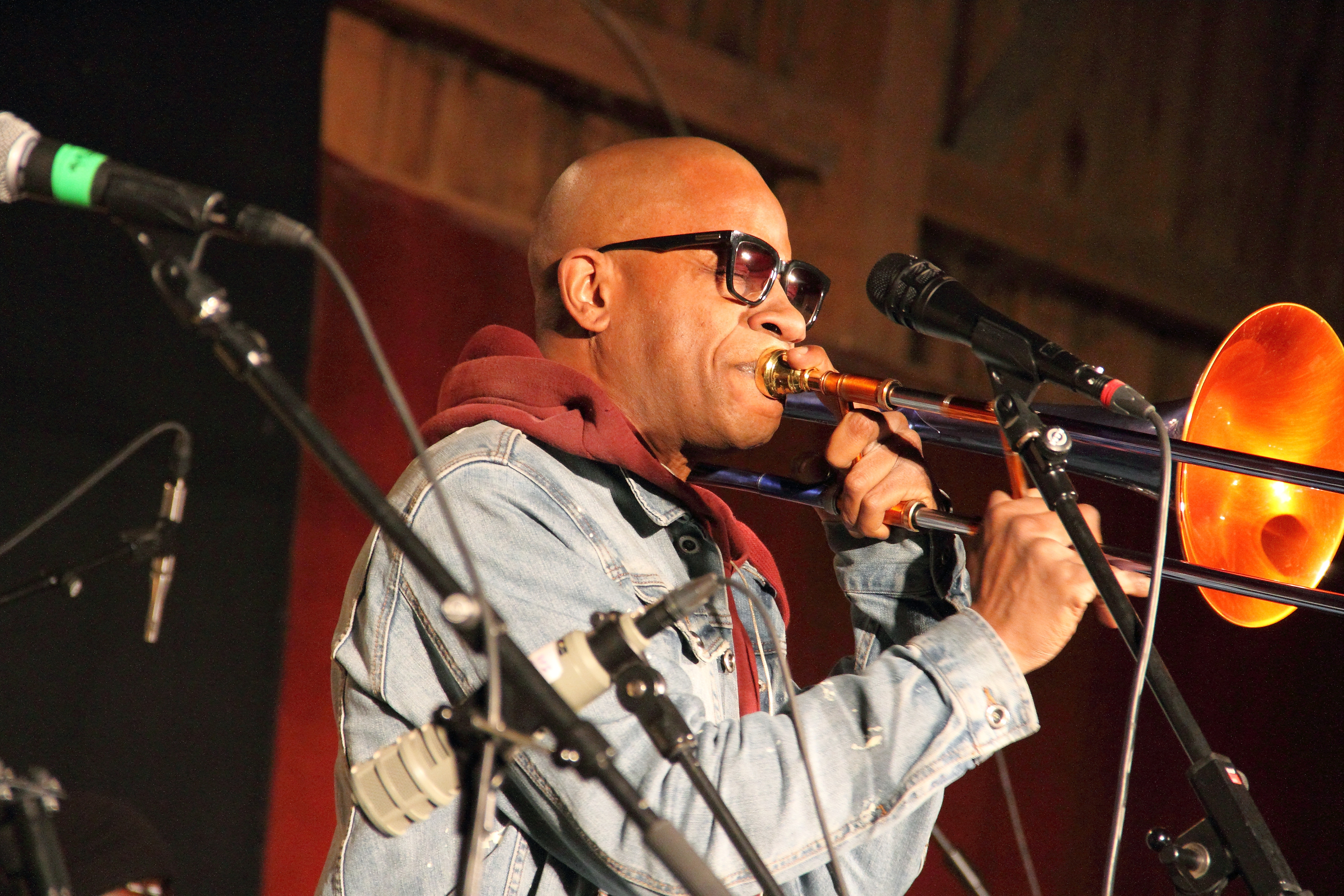 Kamasi Washington & Band at INNtöne Jazzfestival 2018.